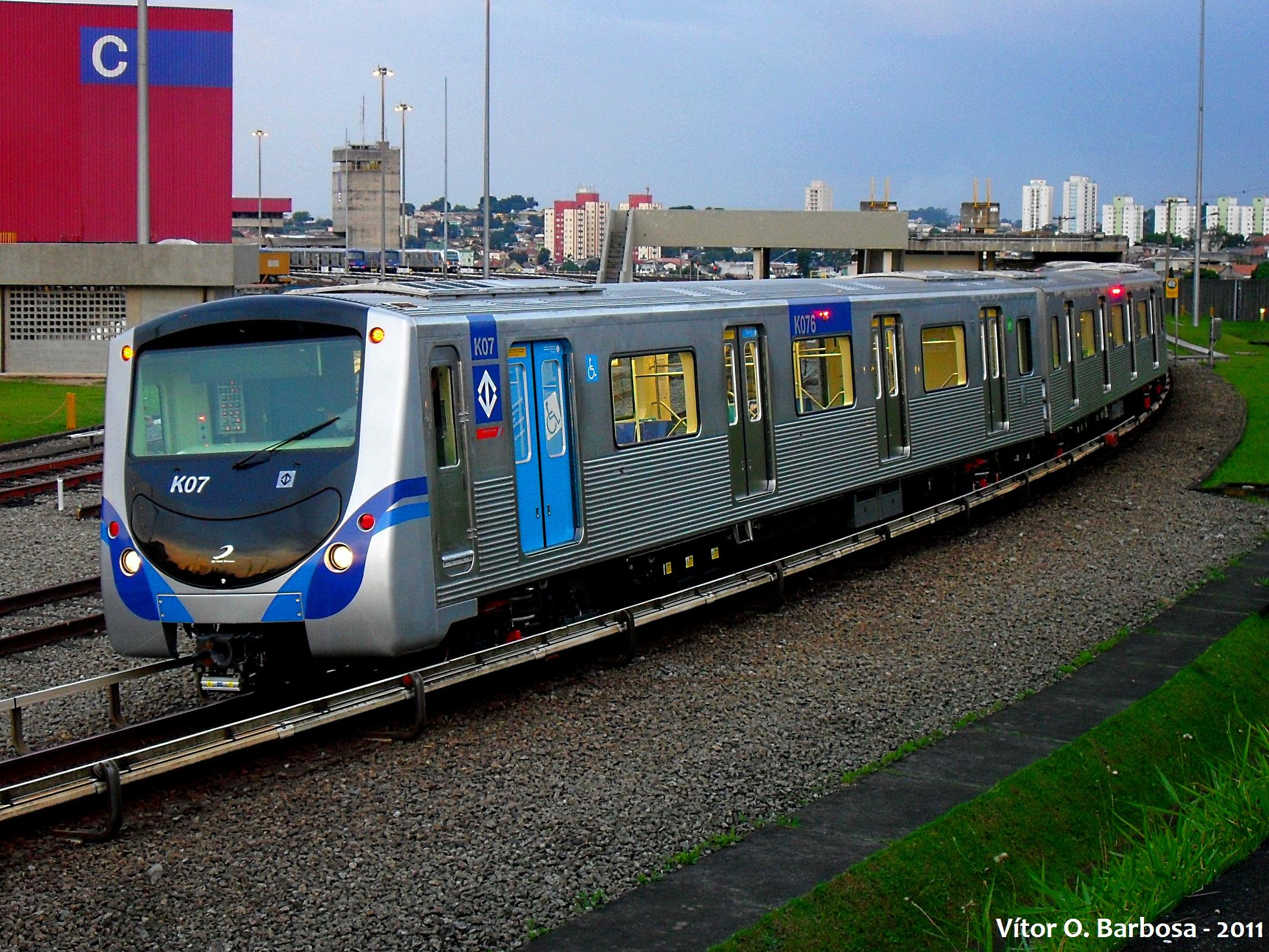 Train 307 - CMSP